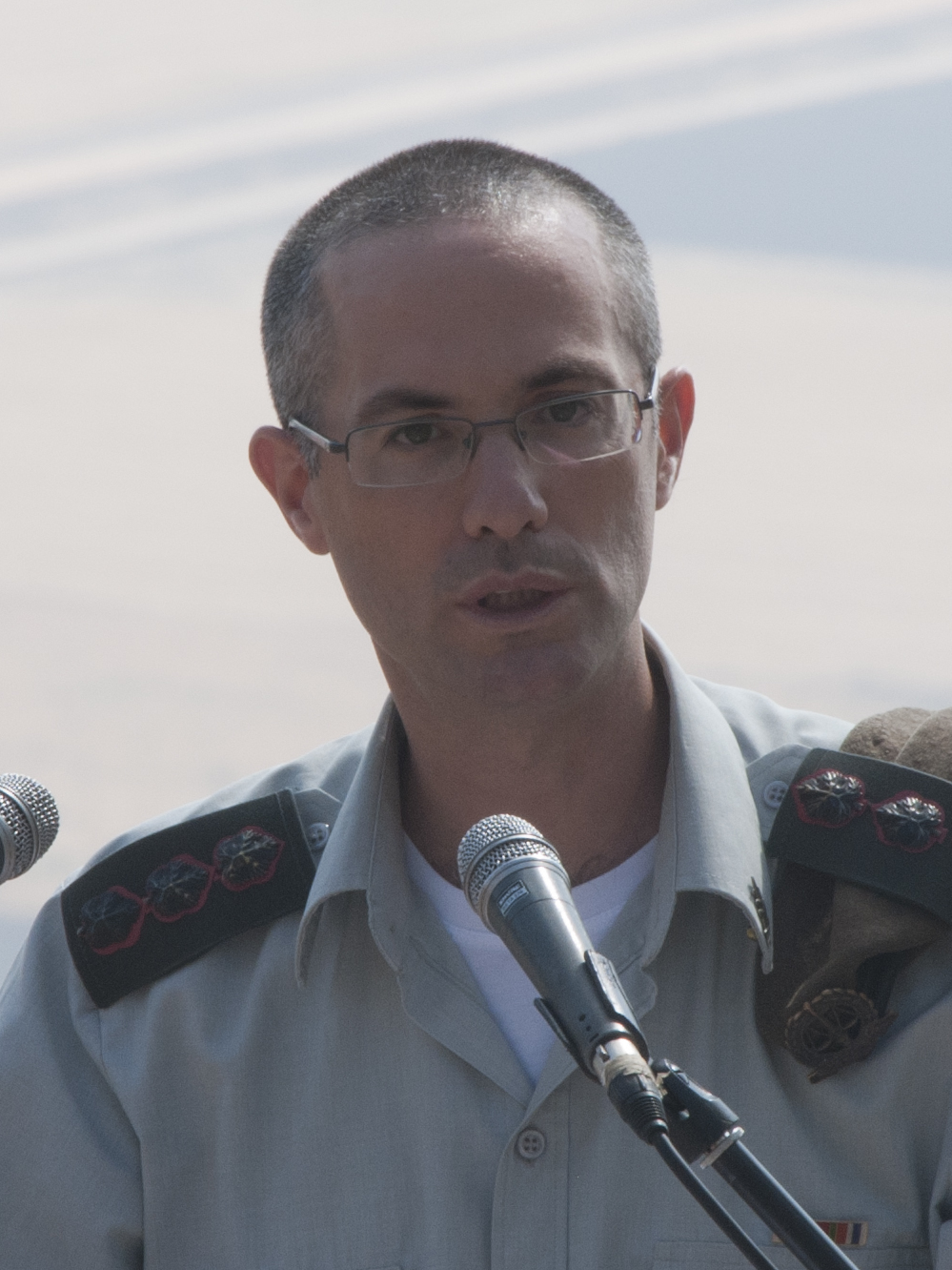 Colonel Sharon Afek - MAG / IDF